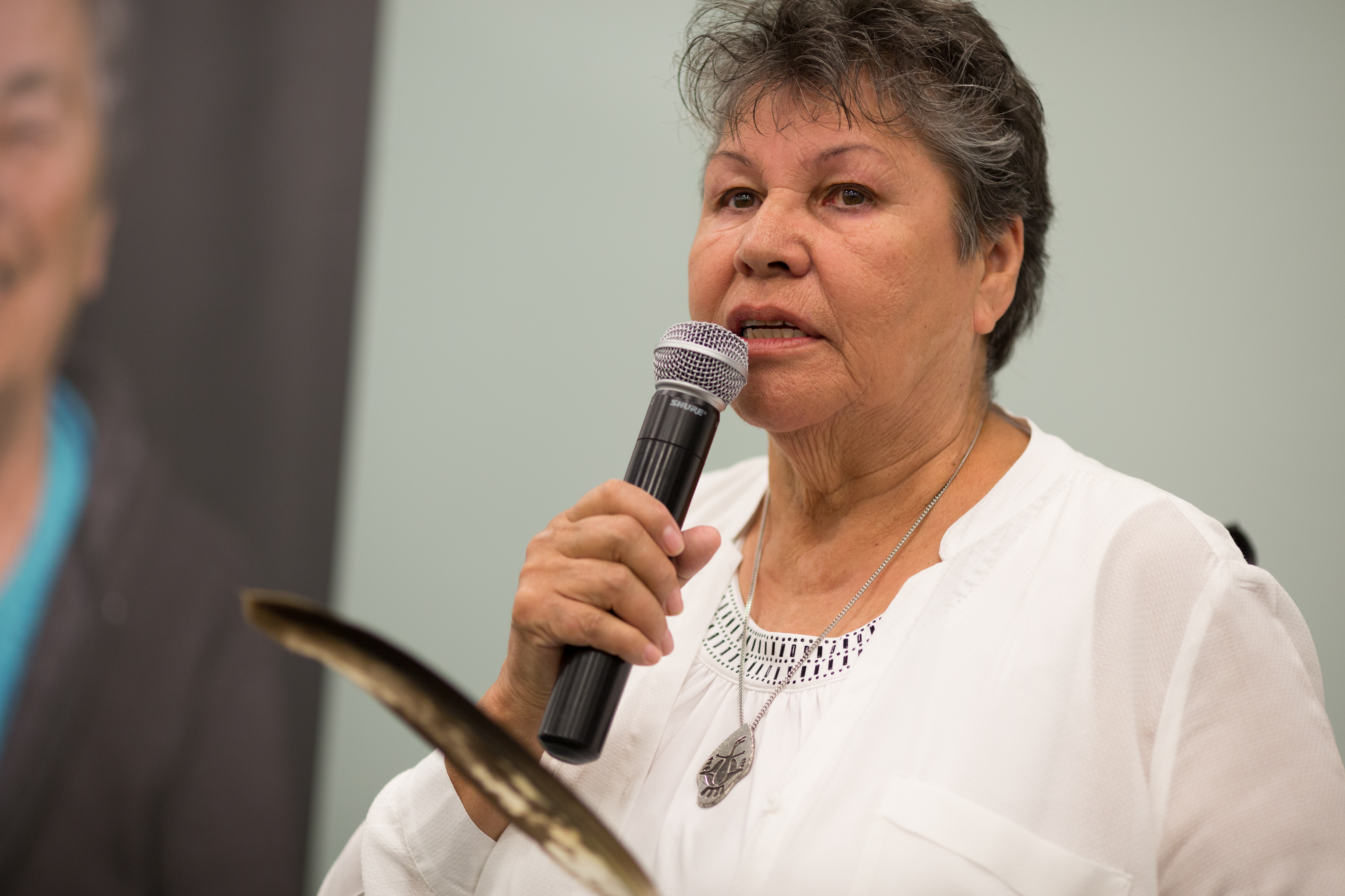 Photograph of Shirley Horn providing welcoming words at the Shingwauk 2015 Gathering and Conference held at Algoma University, July 31st - August 2, 2015.